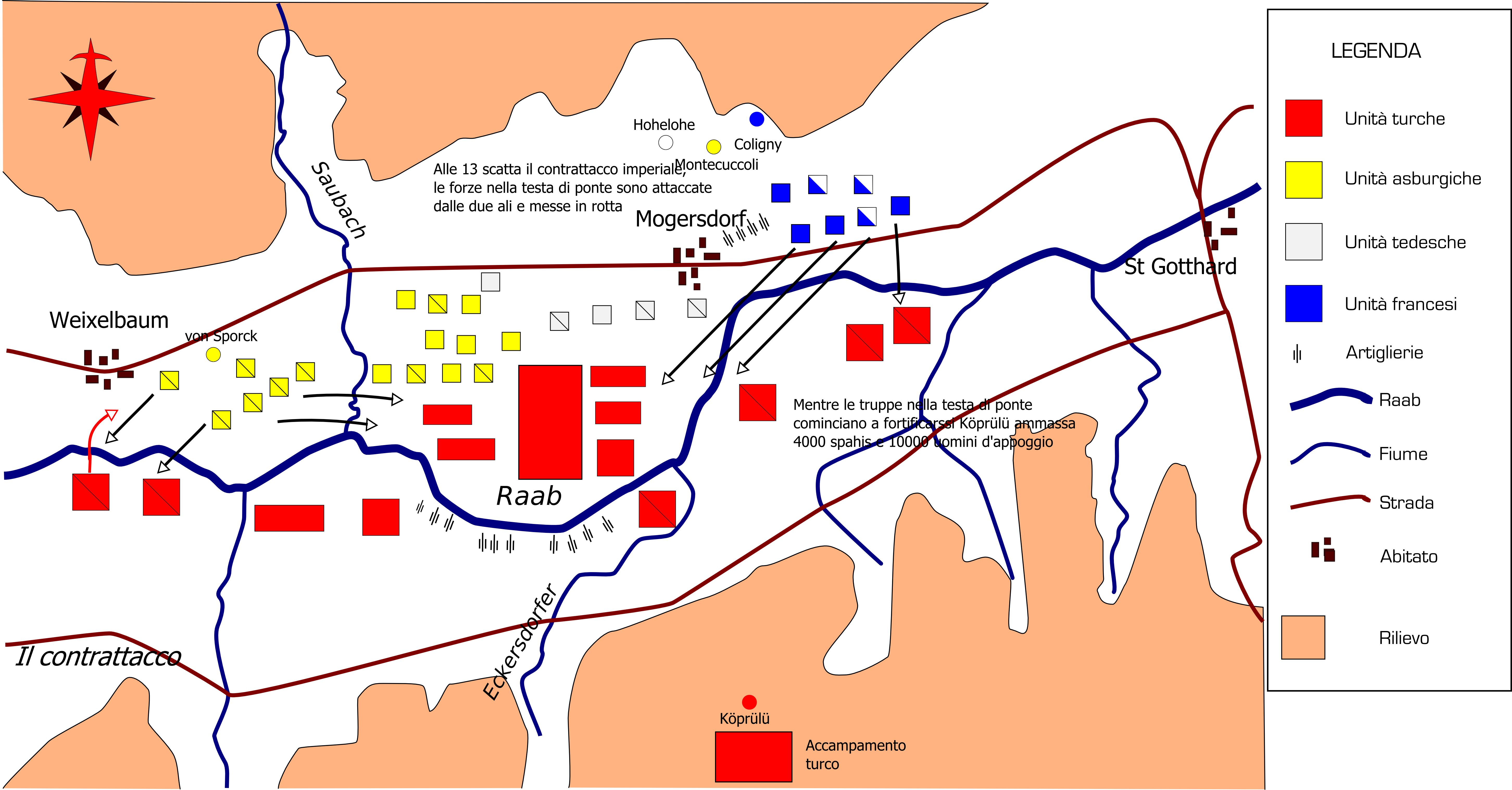 Counterattack of imperial forces in the Battle of St Gotthard